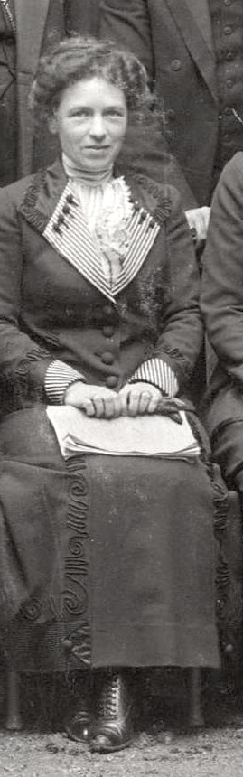 Beatrice Moses Hinkle (1874–1953) was a pioneering American feminist, psychoanalyst, writer, and translator. This crop of a larger image is from 1911. It is not the highest resolution, but provided for historical reasons.